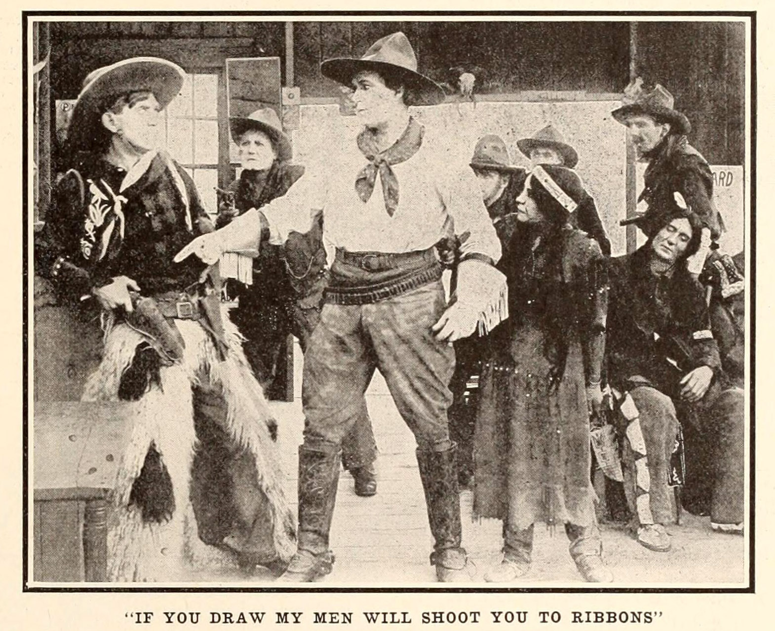 Film still from The Squaw Man published in Motion Picture News